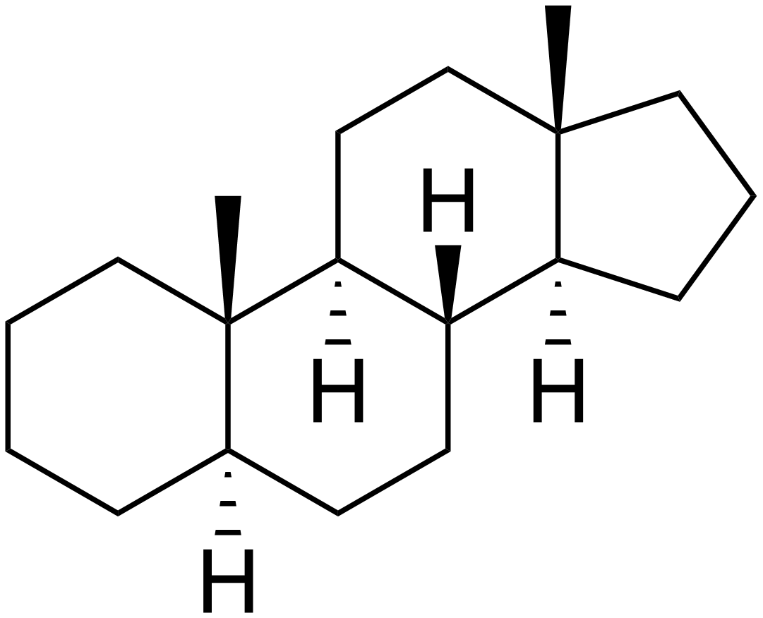 Chemical structure of 5α-androstane